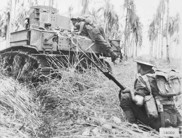 1943-01-02. PAPUA. GIROPA POINT. AUSTRALIAN MANNED GENERAL STUART M3 TANKS ATTACK JAPANESE PILLBOXES IN THE FINAL ASSAULT ON BUNA. CORPORAL R. F. RODGERS, D COMPANY, 2/12TH BATTALION, WARNS THE TANK CREW ABOUT ANOTHER JAPANESE PILLBOX AT RIGHT AS THE TANK BLASTS AWAY AT A PILLBOX AHEAD. IN THE FOREGROUND PRIVATE R. G. RHEINBERGER, FROM THE SAME COMPANY, ADVANCING WITH THE TANK STANDS READY TO SHOOT AT THE JAPANESE AS THE PILLBOX IS BLASTED. THIS PHOTOGRAPH WAS TAKEN DURING THE ACTUAL FIGHTING.